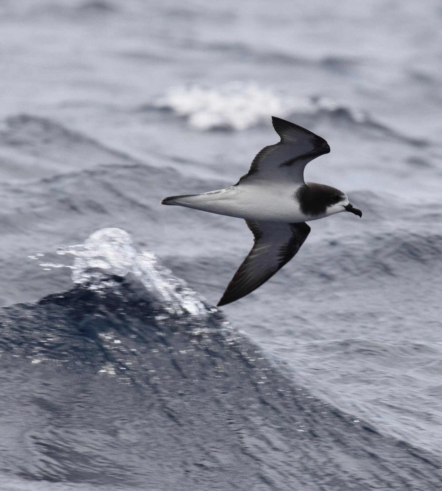 Gould's Petrel (Pterodroma leucoptera), east of Southport, Queensland, Australia